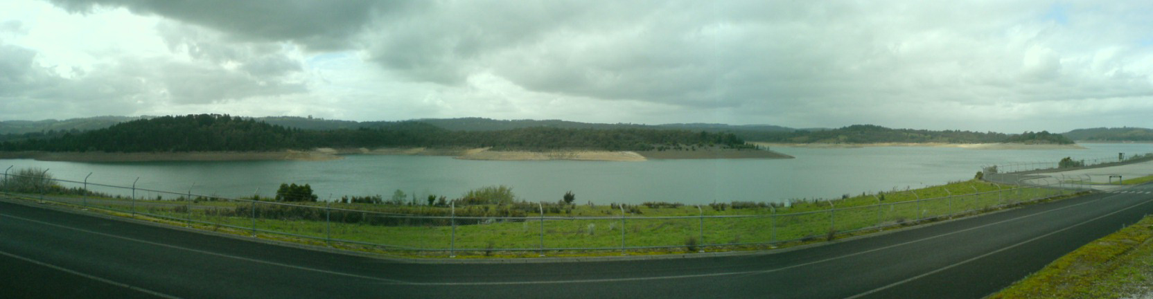 A panorama shot of the east side of Cardinia Reservoir